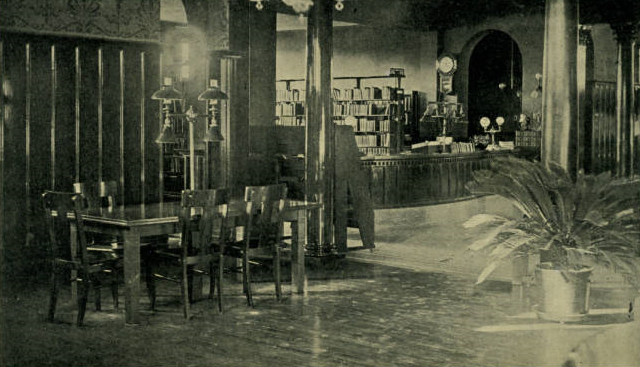 Reading Room of the Carnegie Library in Delaware, OH